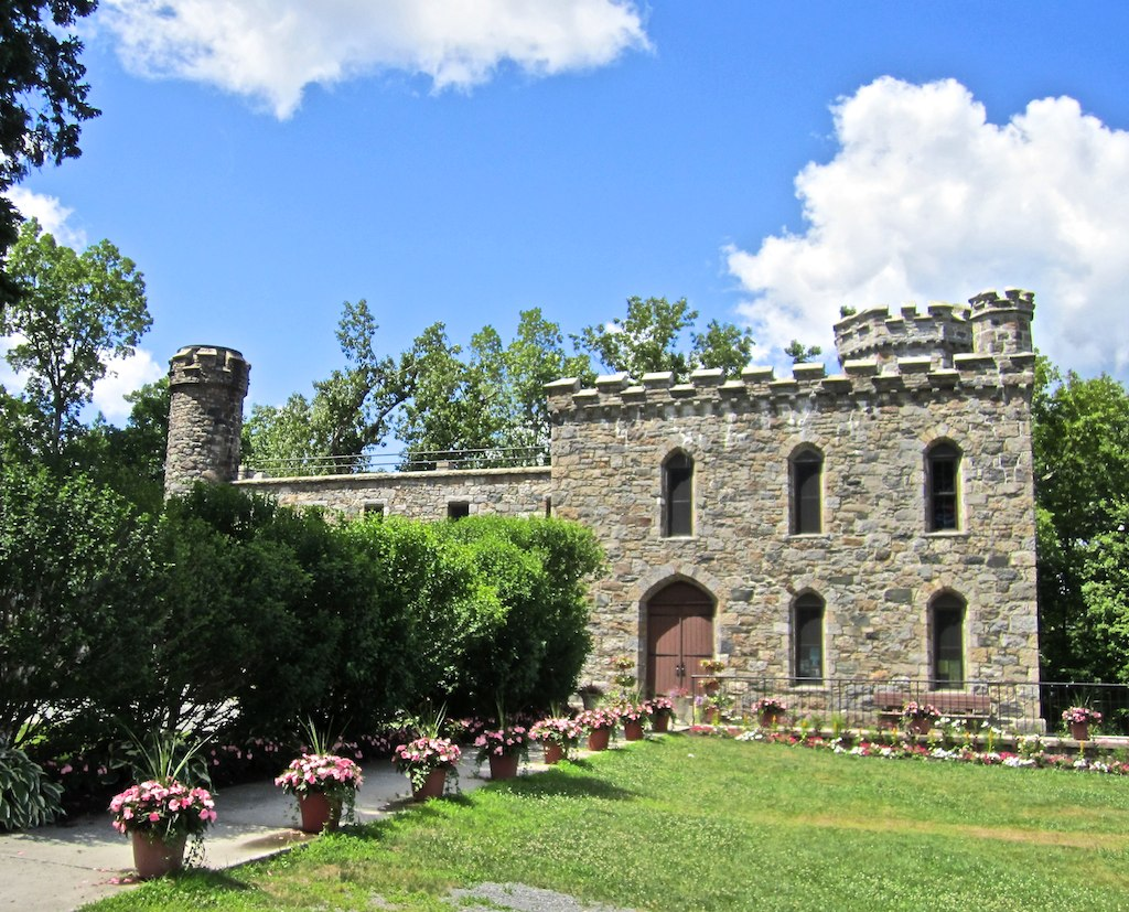 vista del castillo